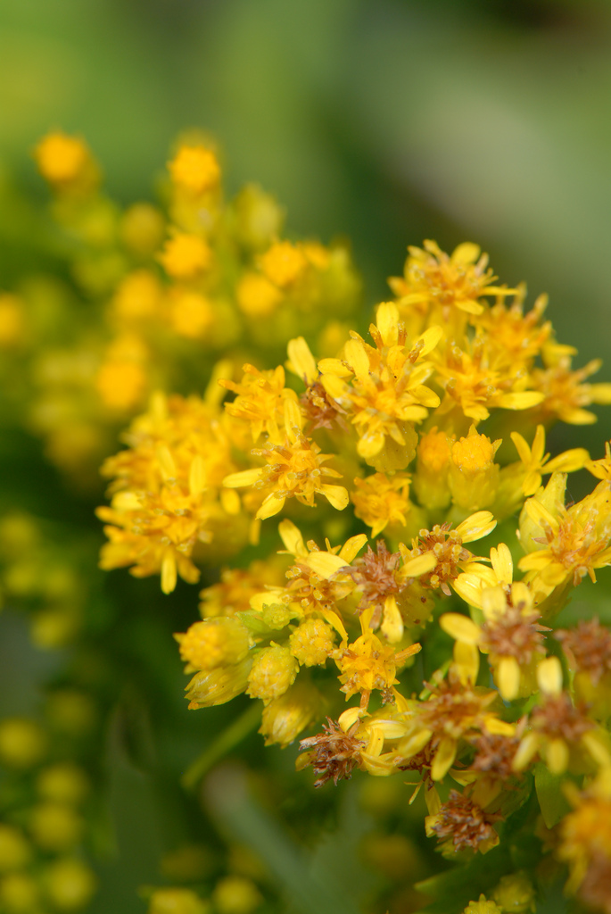 BDA: 32° 18' 46" N x 64°43' 27" W Spittal Pond Nature Reserve Smith's Parish, Bermuda 30 July 2009 Sam Fraser-Smith